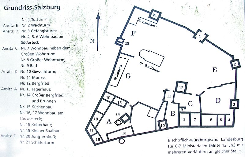 Salzburg castle near Bad Neustadt (Landkreis Rhön-Grabfeld, Lower Franconia, Germany). Ground plan (Information board in front of the castle)